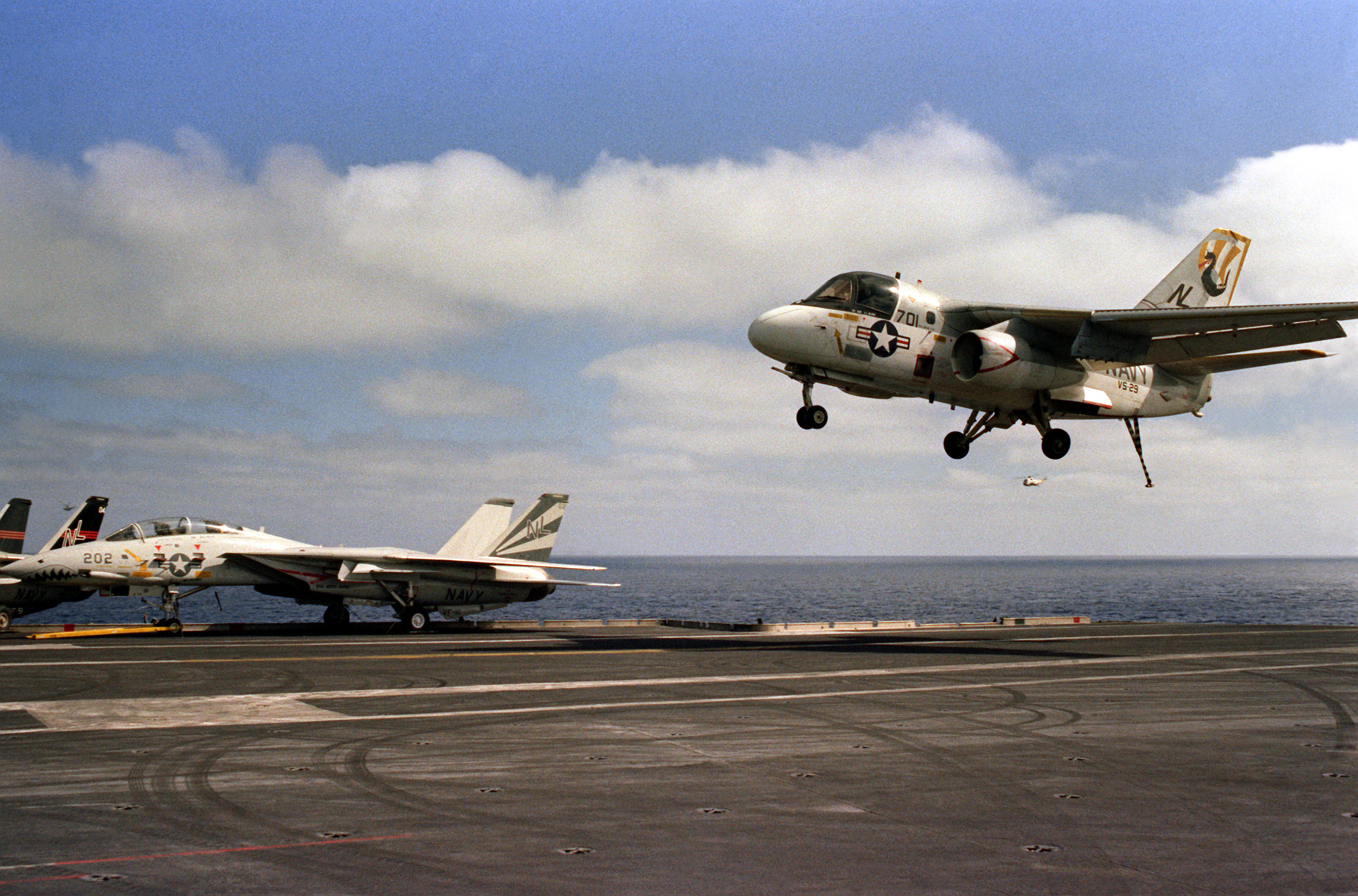 A U.S. Navy Lockheed S-3A Viking (BuNo 160580) from Anti-Submarine Squadron 29 (VS-29) "Dragonflies" as it makes the 200,000th aircraft landing aboard the aircraft carrier USS Kitty Hawk (CV-63) on 1 April 1981. Two Grumman F-14A Tomcat aircraft of Fighter Squadron 51 (VF-51) "Screaming Eagles" (BuNo 160673, left) and VF-111 "Sundowners" (BuNo 160690) are parked on deck. A plane-guard Sikorsky SH-3H Seaking helicopter from Helicoper Antisubmarine Squadron 4 (HS-4) "Black Knights" is visible in the background. The squadrons were assigned to Carrier Air Wing 15 (CVW-15) aboard the Kitty Hawk for a deployment to the Western Pacific from 1 April to 23 November 1981.